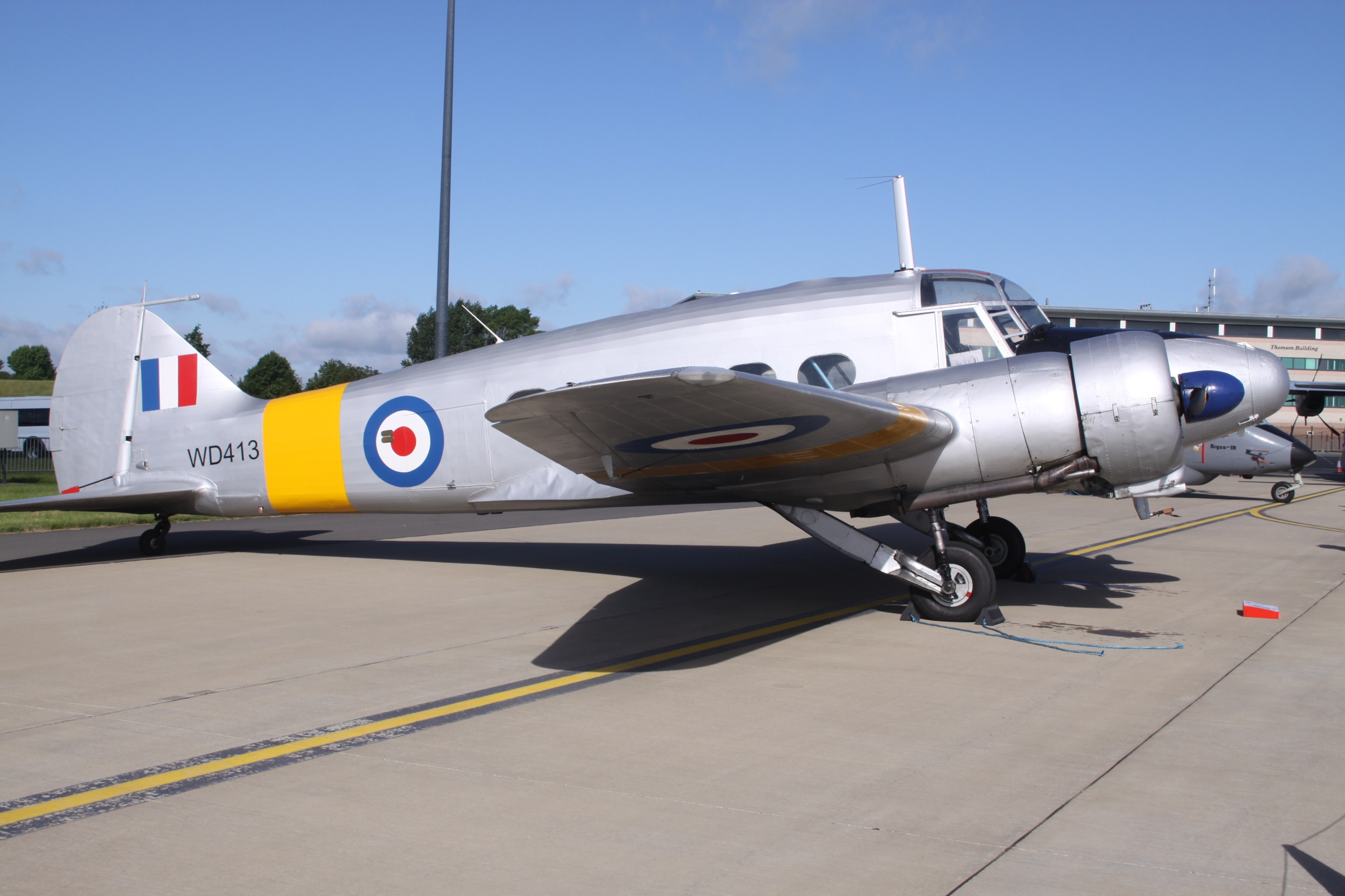 At RAF Waddington